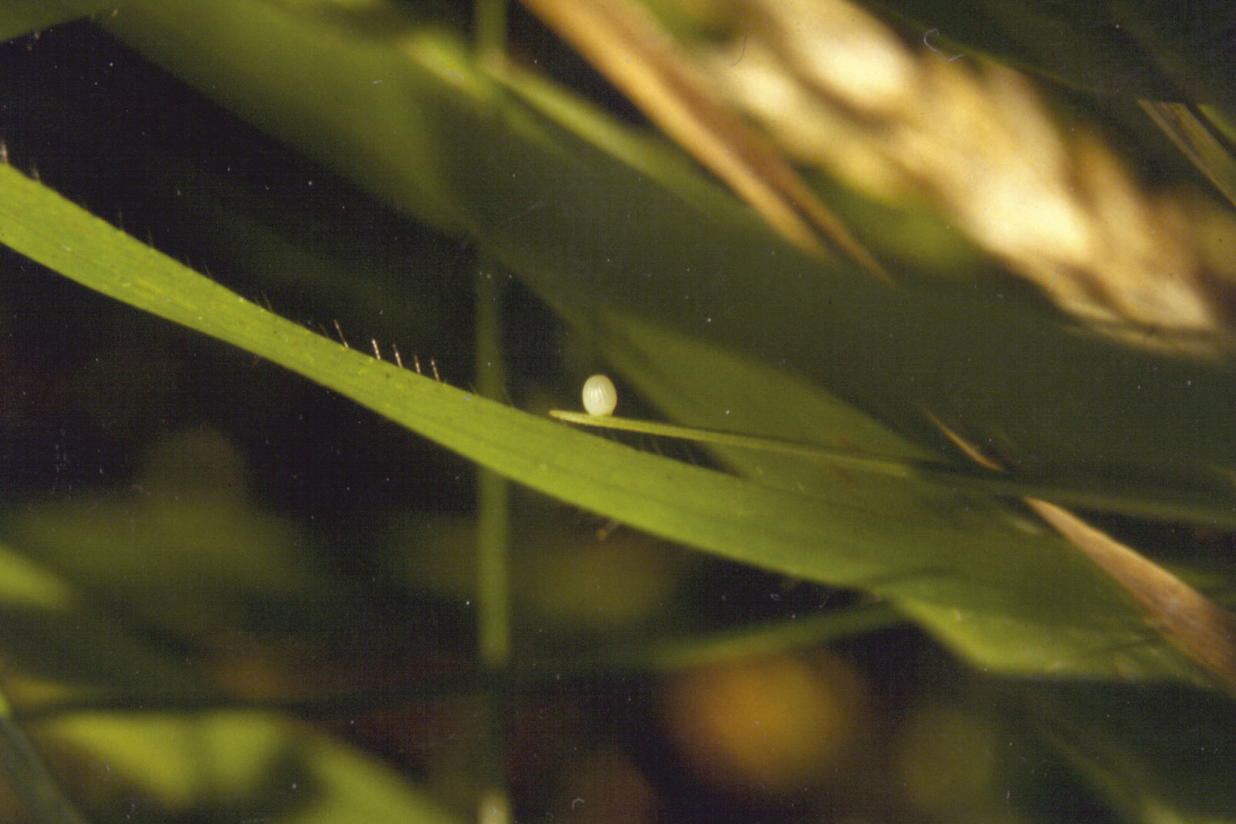 Scotch Argus (Erebia aethiops) egg